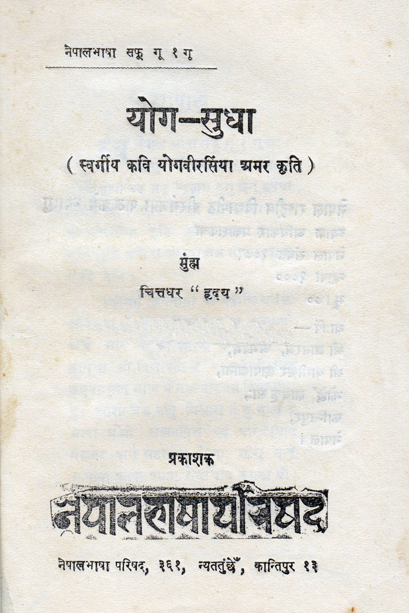 Title page of Yog-Sudha, an anthology of poems in Nepal Bhasa by Yogbir Singh Kansakar, published in 1951.